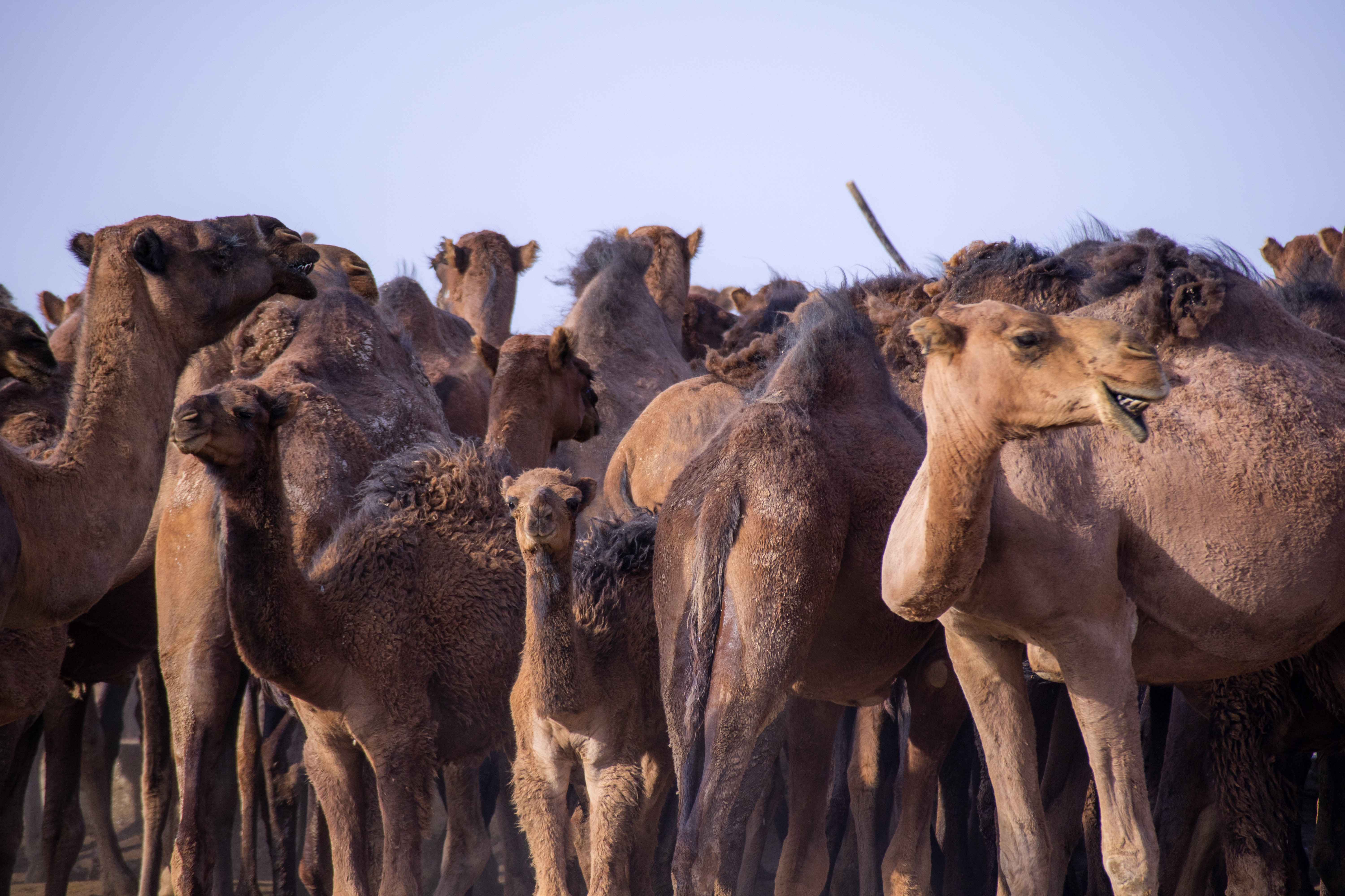 Deir-e Gachin Caravansarai is one of the greatest caravansarais of Iran which is located in the center of Kavir National Park. Its unique qualities is the reason it is called “Mother of Iranian Caravansarais”. It is located in the Central District of Qom County, 80 kilometers north-east of Qom (60 kilometers into Garmsar Freeway) and 35 kilometers south-west of Varamin. (Photo by: Mostafa Meraji, wiki loves monuments 2018)